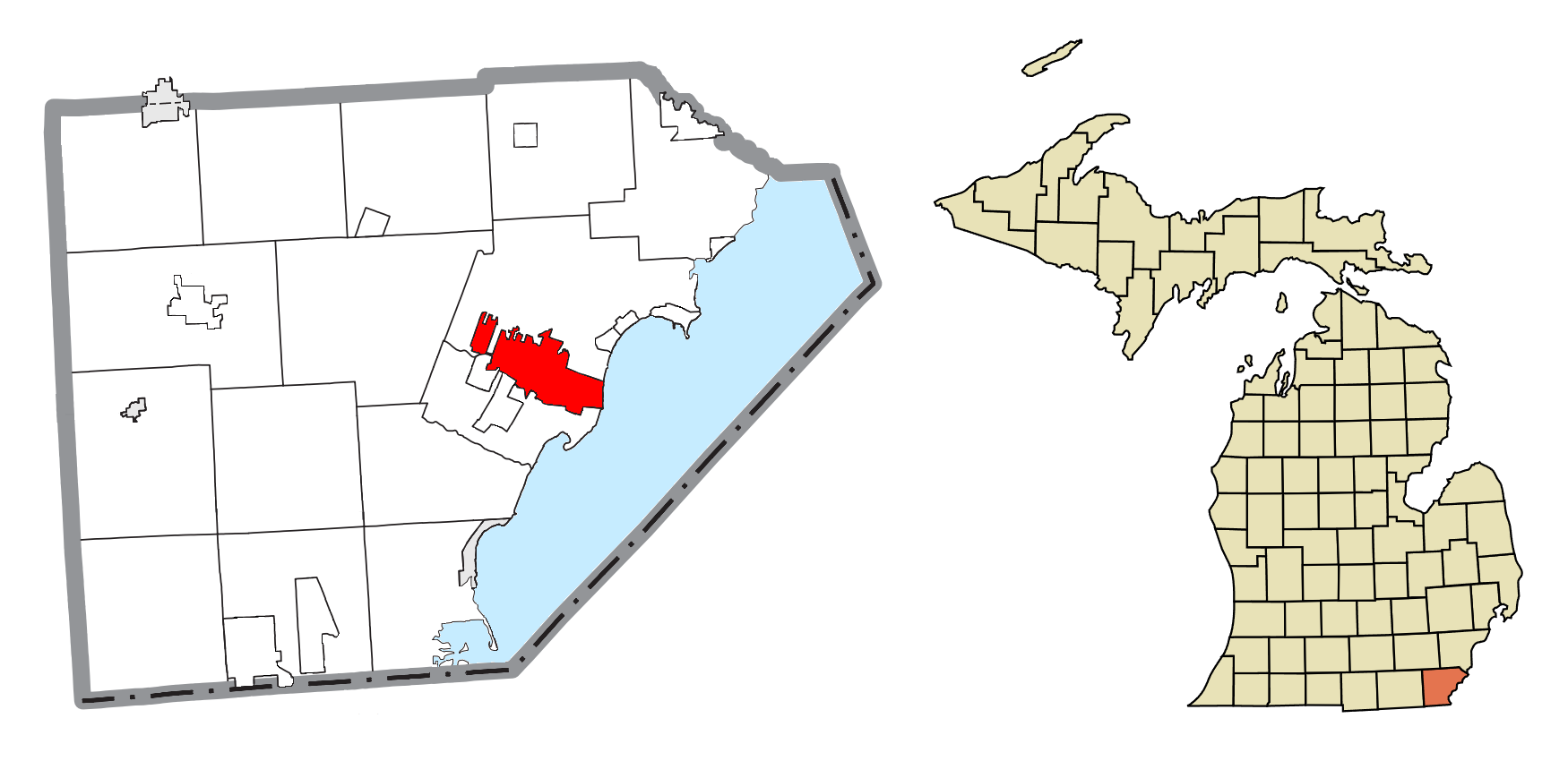 Monroe, MI